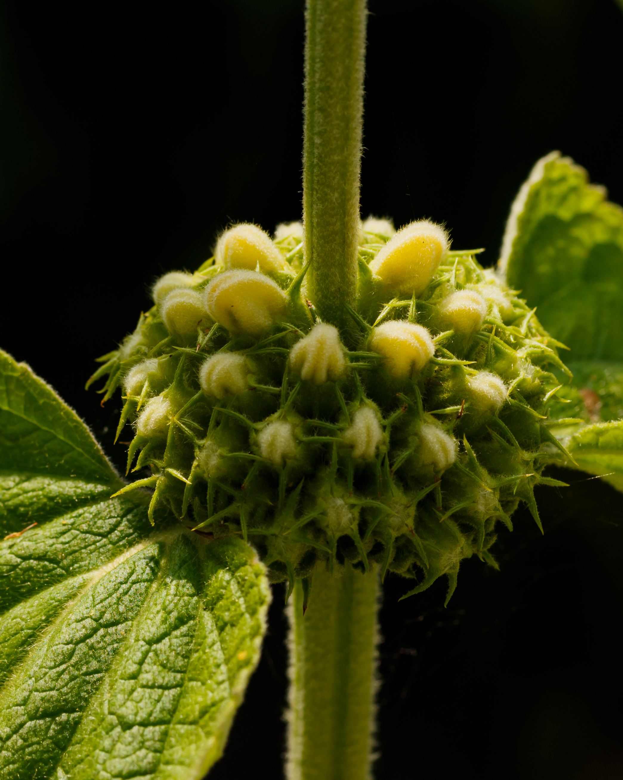 Phlomis russeliana. Location, The Kruidhof in the Netherlands.